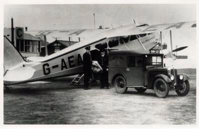 The first air mail service on the Isle of Man, pictured at Hall Caine Airport, Ramsey, August 1934.